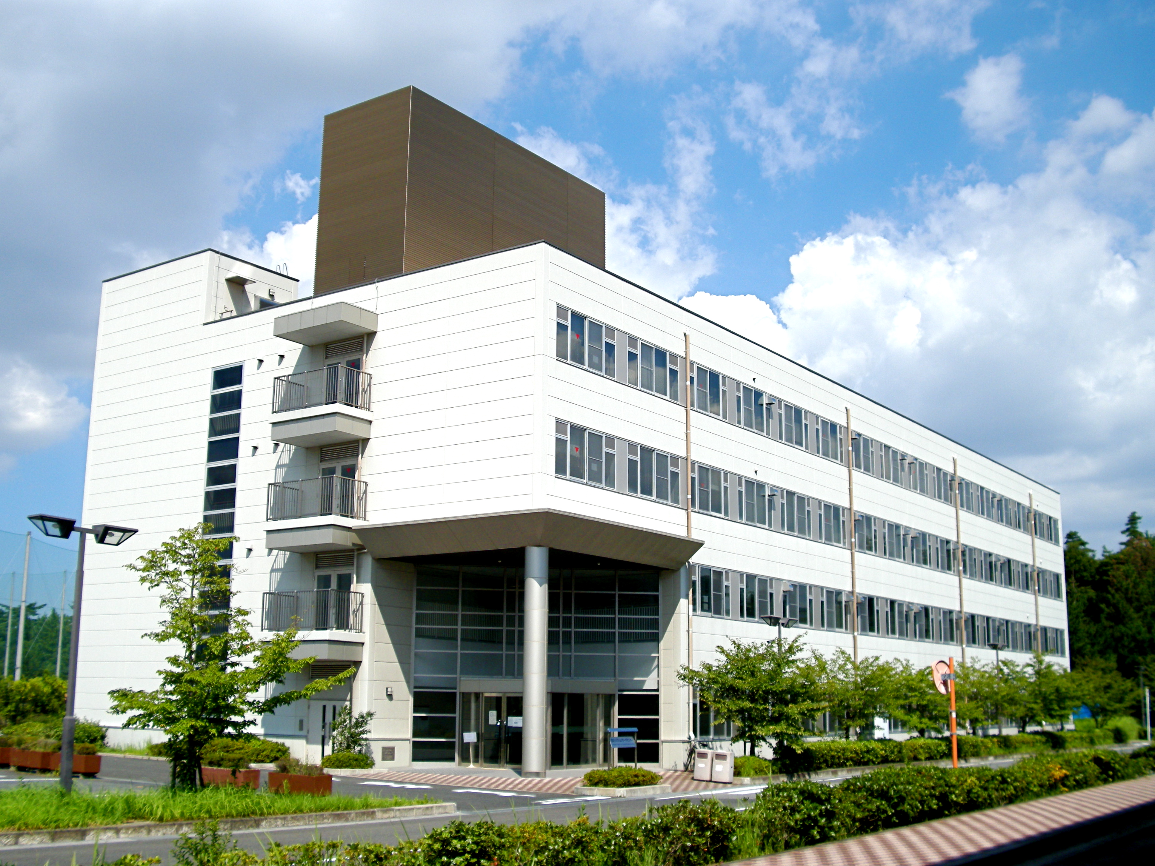 Research Centre for Disaster Mitigation System (Biwako Kusatsu Campus, Ritsumeikan University, Japan)